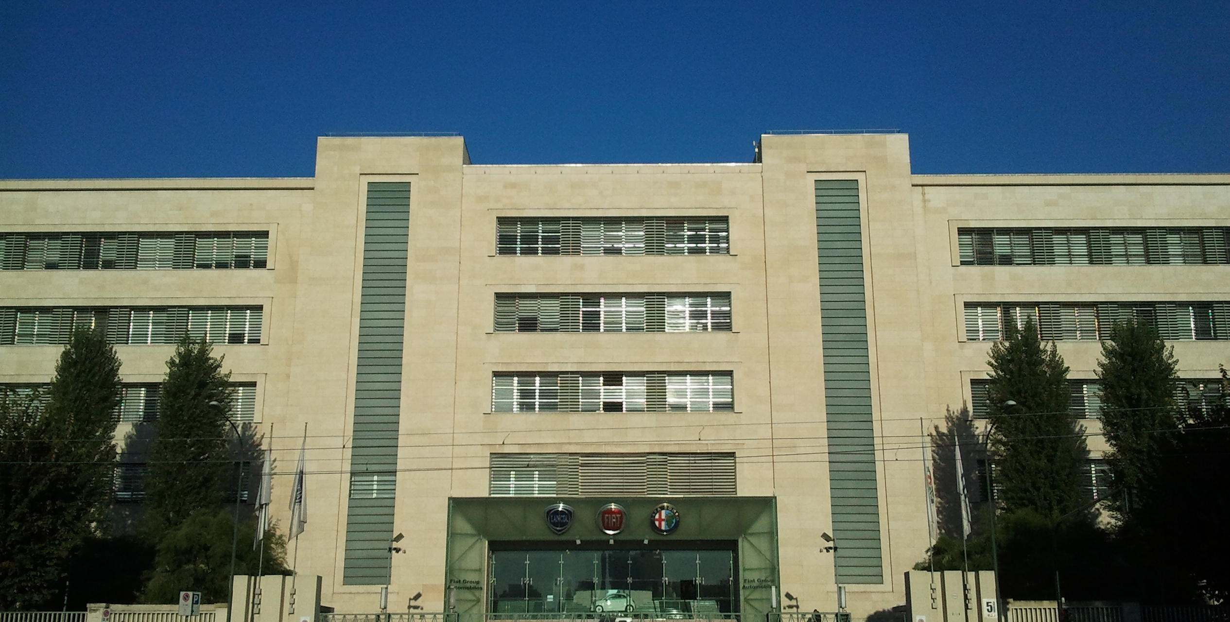 World Headquarters of Fiat Group Autmobiles. Palazzina. Fiat Mirafiori facility. Torino. Italy